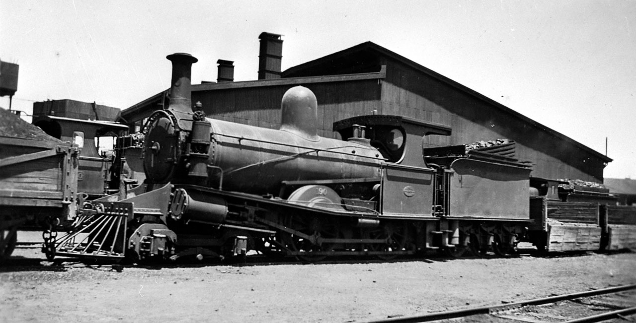 Z 190: 4-4-0 type narrow gauge steam locomotive built by James Martin